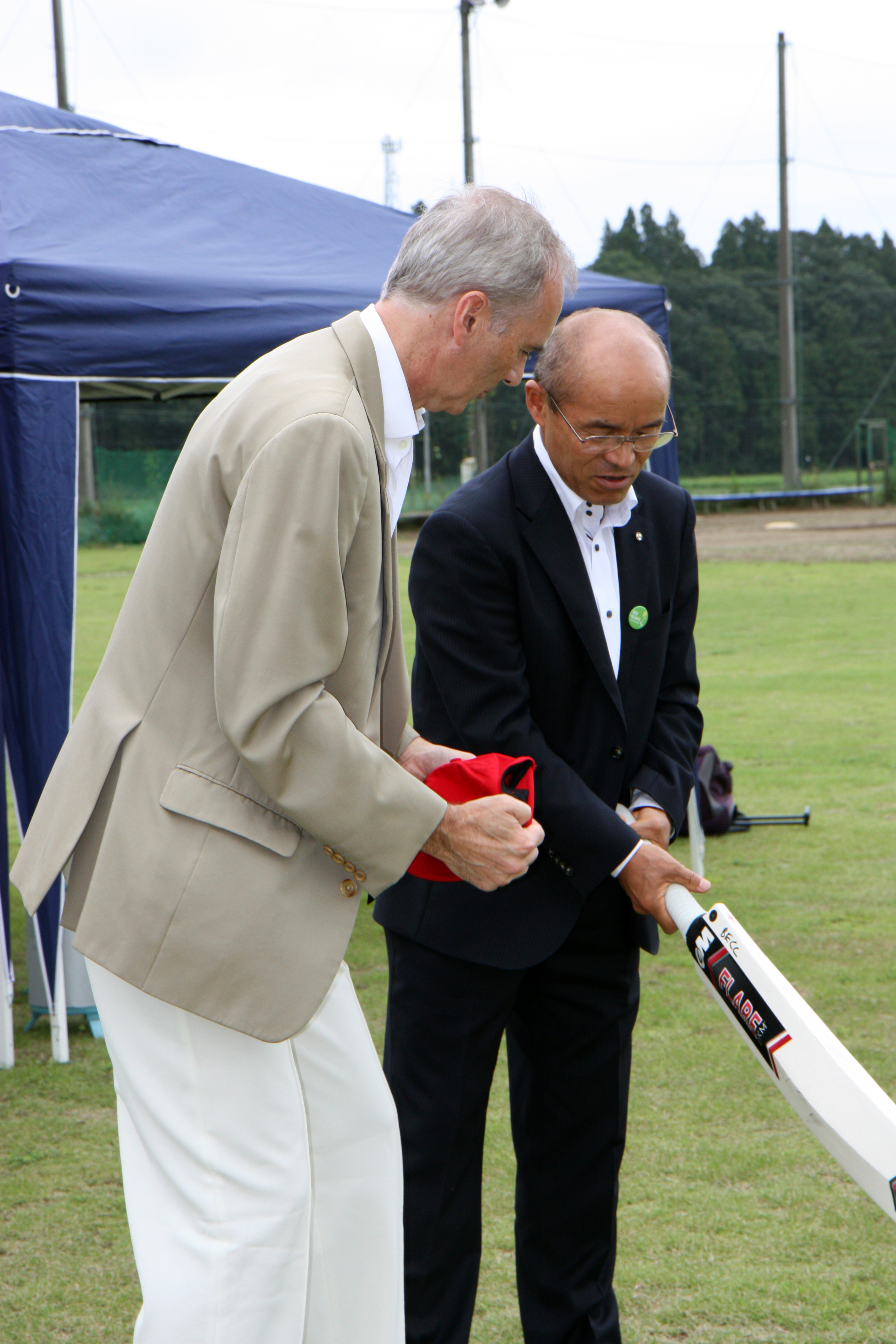 Tim Hitchens, Ambassador to Japan, advised about the cricket to Katsunobu Sakurai, Mayor of Minamisōma City, at the Kitaniida Baseball Park in Minamisōma City, Fukushima Prefecture on September 7, 2013.